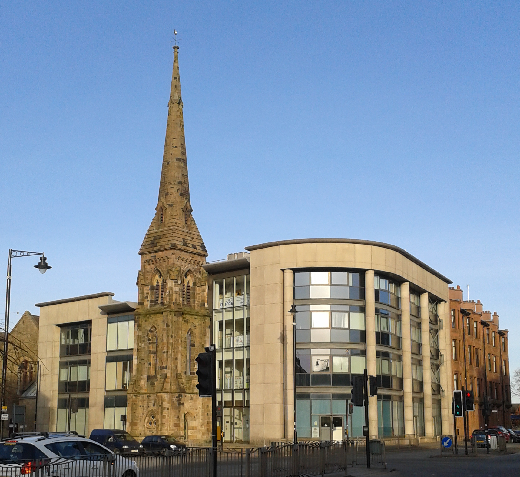 Aspire Building, corner of Main St and Farmeloan Road, Rutherglen.